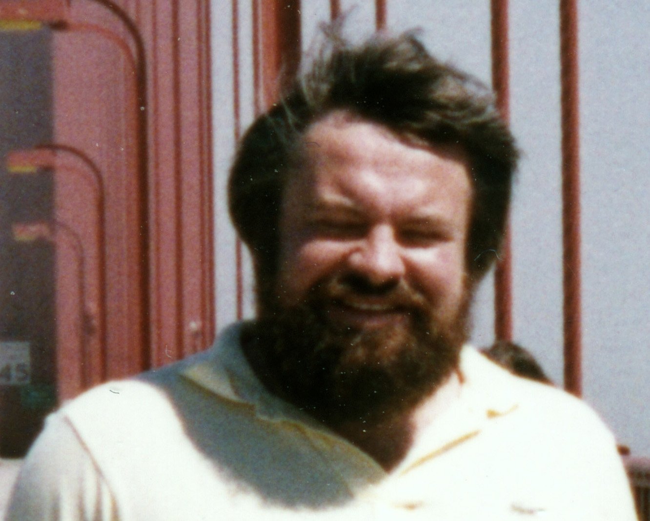 Marek Karpinski